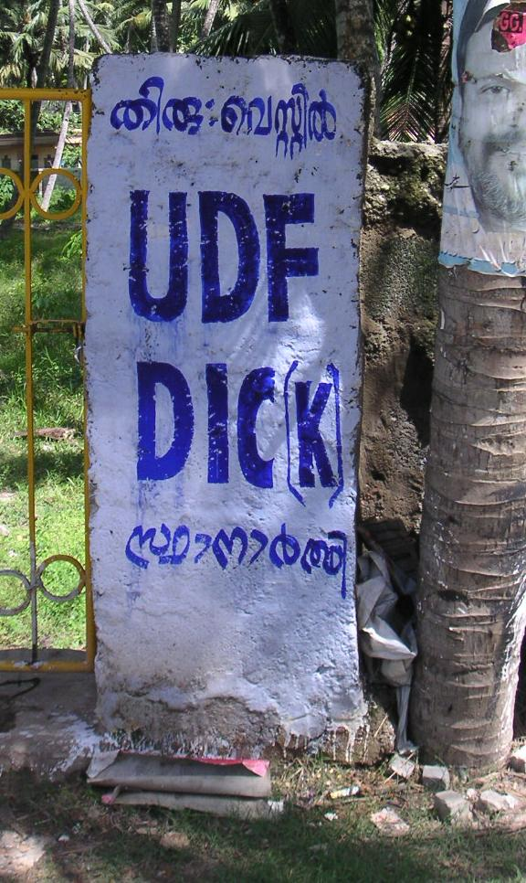 Photo: Soman